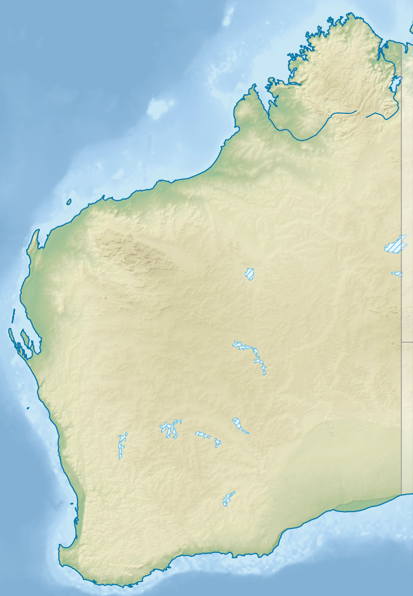 Relief location map of Western Australia, Australia Equidistant cylindrical projection, latitude of true scale 24.62° S (equivalent to equirectangular projection with N/S stretching 110 %). Geographic limits of the map: N: 13.2° S S: 35.5° S W: 112.5° E E: 129.5° E